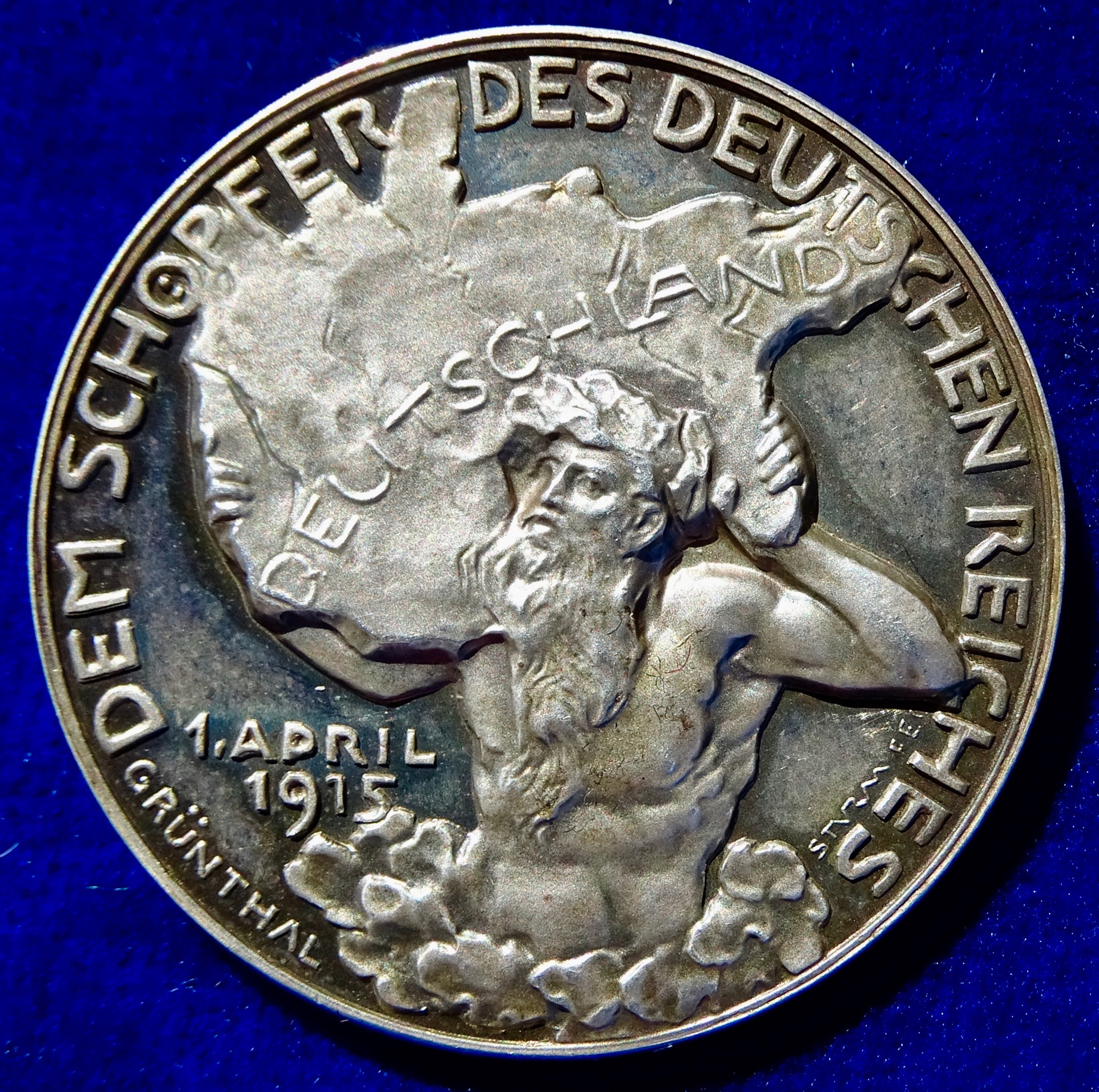 1915 WWI Judaica Silver Medal 100th Anniversary of Bismarck. Medallion d. = 34 mm. 18.35 g Ag 0.990 Fine Silver. Bismarck, Otto Graf, 1815 Schönhausen (Elbe) -1898 Friedrichsruh, Germany Plain bare head r, above "BISMACK"/ A giant carries the sculpture of the map of Germany, 2 lines at l.: "1. APRIL 1915", curved above: "DEM SCHÖPFER DES DEUTSCHEN REICHES". At edge: "Silber 990". Münzkabinett der Staatlichen Museen zu Berlin, 18242853. Medallists: (Hugo) Grünthal, Jewish numismatist, owner of Robert Ball Nachf. Berlin, 1869 Beuthen, today in Poland - 1943 Berlin & (Prof. Paul) Sturm, 1859 Leipzig - 1936 Jena, Thuringia. Condition: Nice EXTREMELY FINE, old patina.